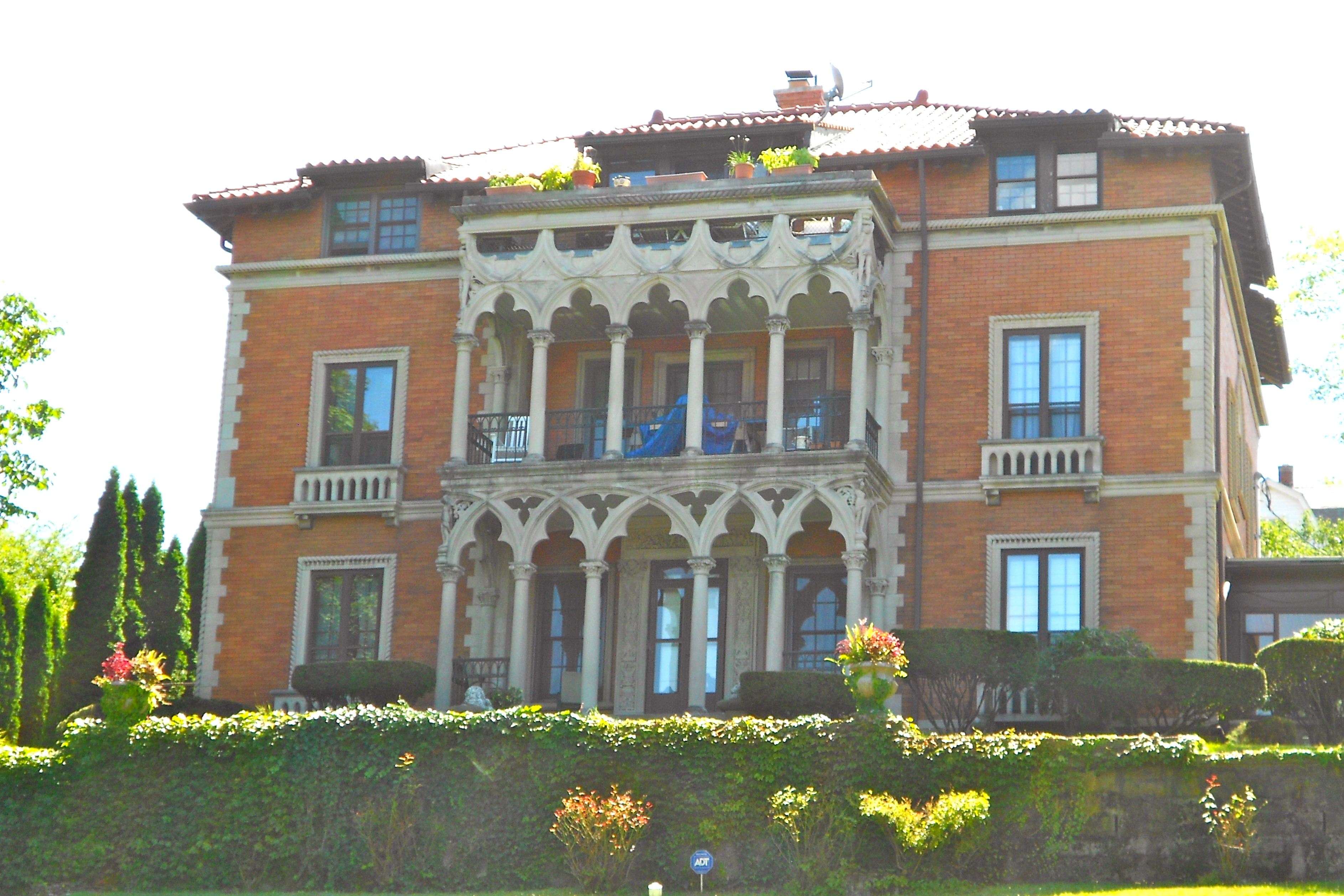 Joseph Cassese House. listed on the NRHP on October 24, 1997, at 1000 Clay Avenue, Scranton, Lackawanna County, Pennsylvania.